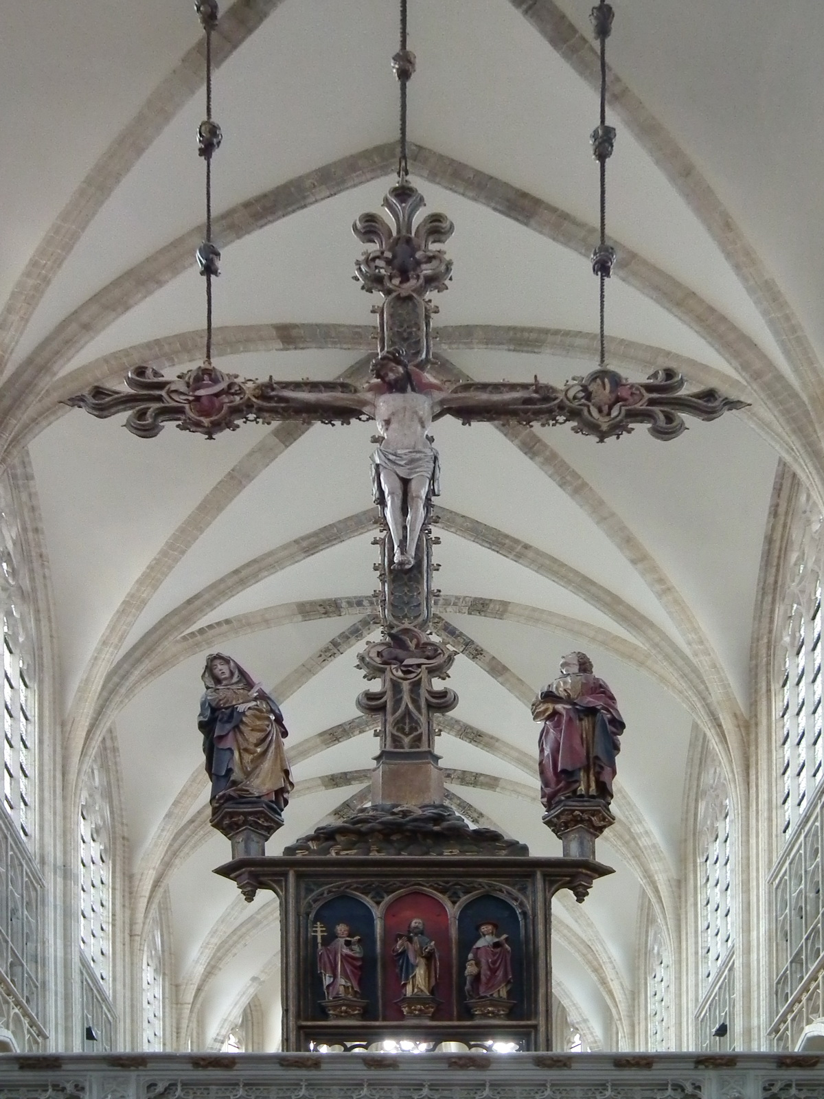 St. Peter's Church Native nameSint-Pieterskerk, LeuvenLocationLeuven, BelgiumCoordinates50° 52′ 46″ N, 4° 42′ 04″ E Established1425Authority control : Q17722 VIAF: 136401019 LCCN: no2005076338 UNESCO: 943-012 WorldCat institution QS:P195,Q17722